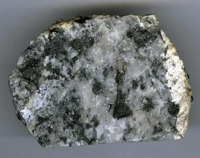 Kotoite, Ludwigite, Szaibélyite (Specimen size: 6.5 x 4.5 x 2.5 cm) Locality: Nalednoe B Deposit, Tas-Khayakhtakh Range, Dogdo River Basin, Polar Yakutia, Saha Republic (Sakha Republic; Yakutia), Eastern-Siberian Region, Russia Original description: Massive coarse-crystalline aggregate of light-grey Kotoite, formed during reaction of B-bearing solutions with layer of pure magnesite. Associating minerals are black fibrous primary Ludwigite and whitish earthy alteration crust (at right) of secondary Szaibelyite. Collected by Nikolai N. Pertsev. Pavel M. Kartashov collection and photo.